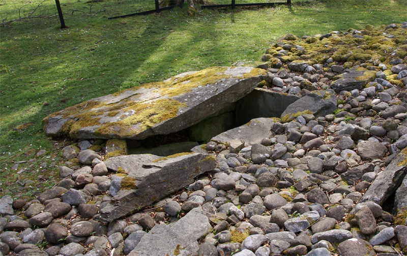 Ri Cruin Cairn, Kilmartin Glen, Scotland - outer cist